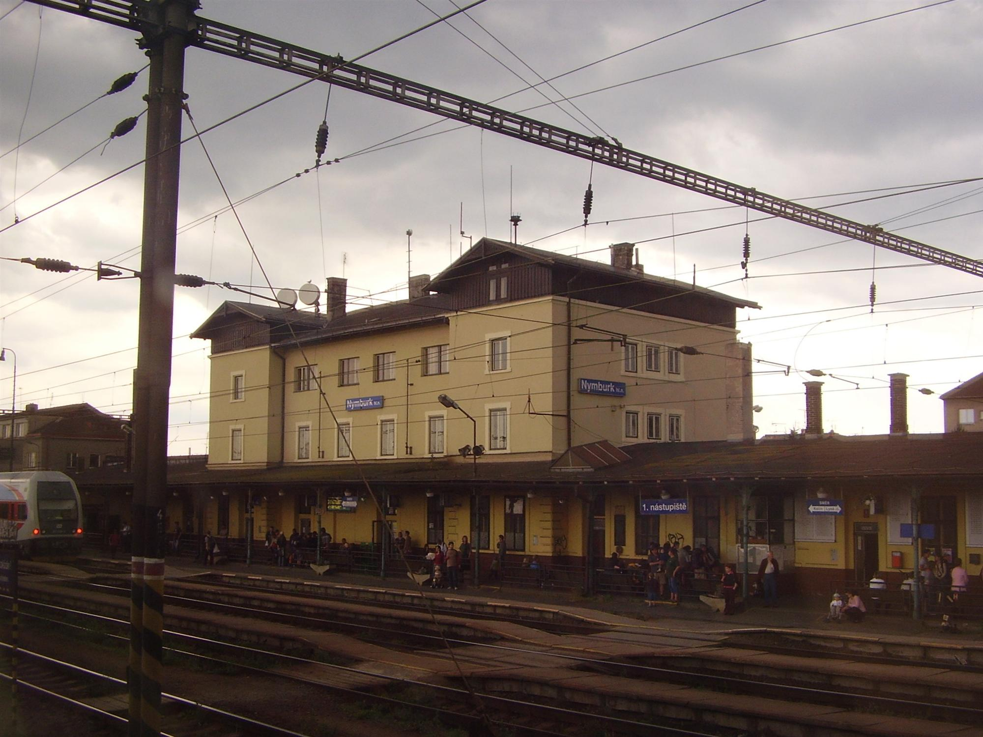 Train station in Nymburk, Central Bohemian Region